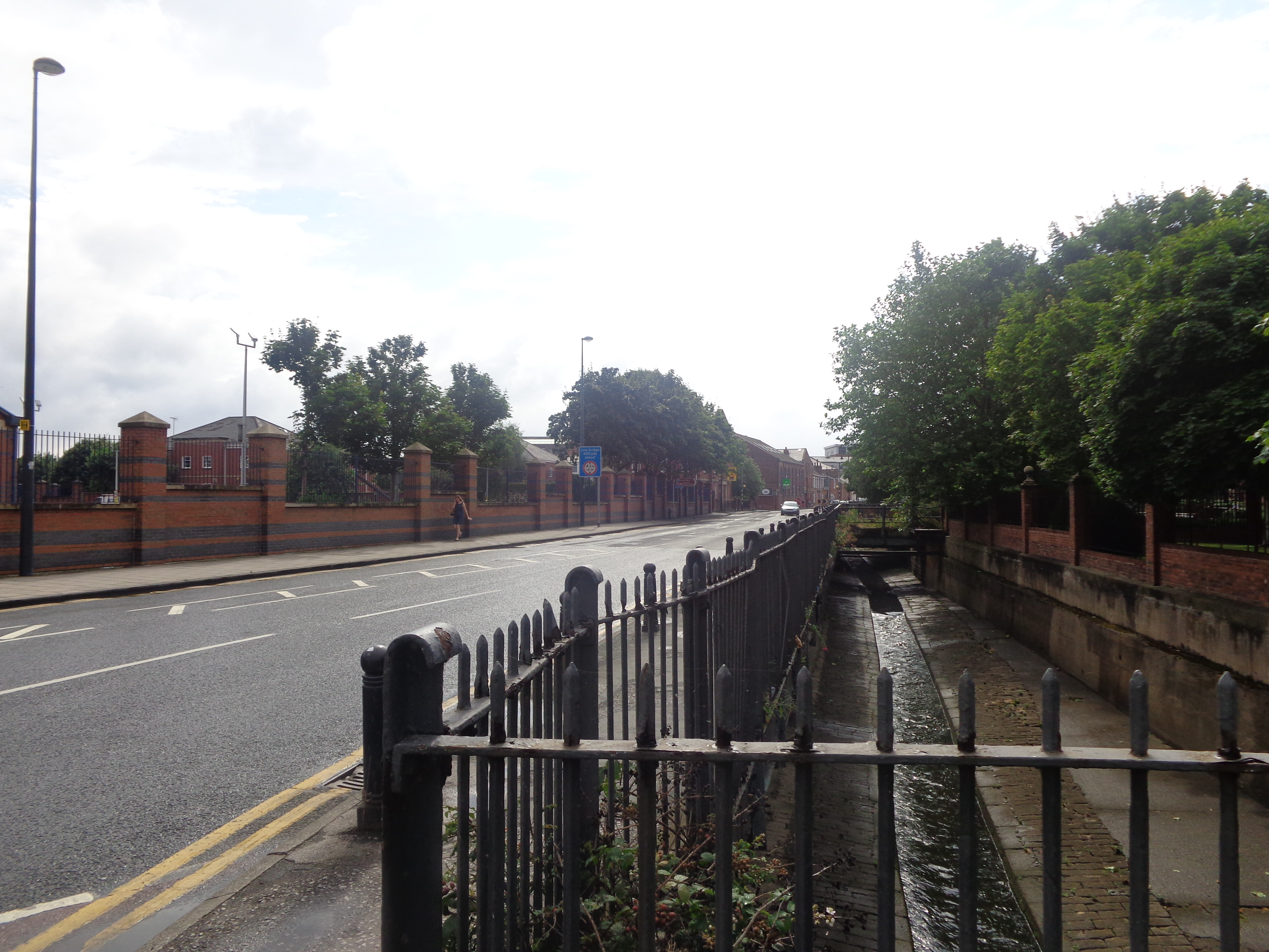 Water Lane and the Hol Beck, Leeds, West Yorkshire. Taken on the afternoon of Saturday the 19th of July 2014.